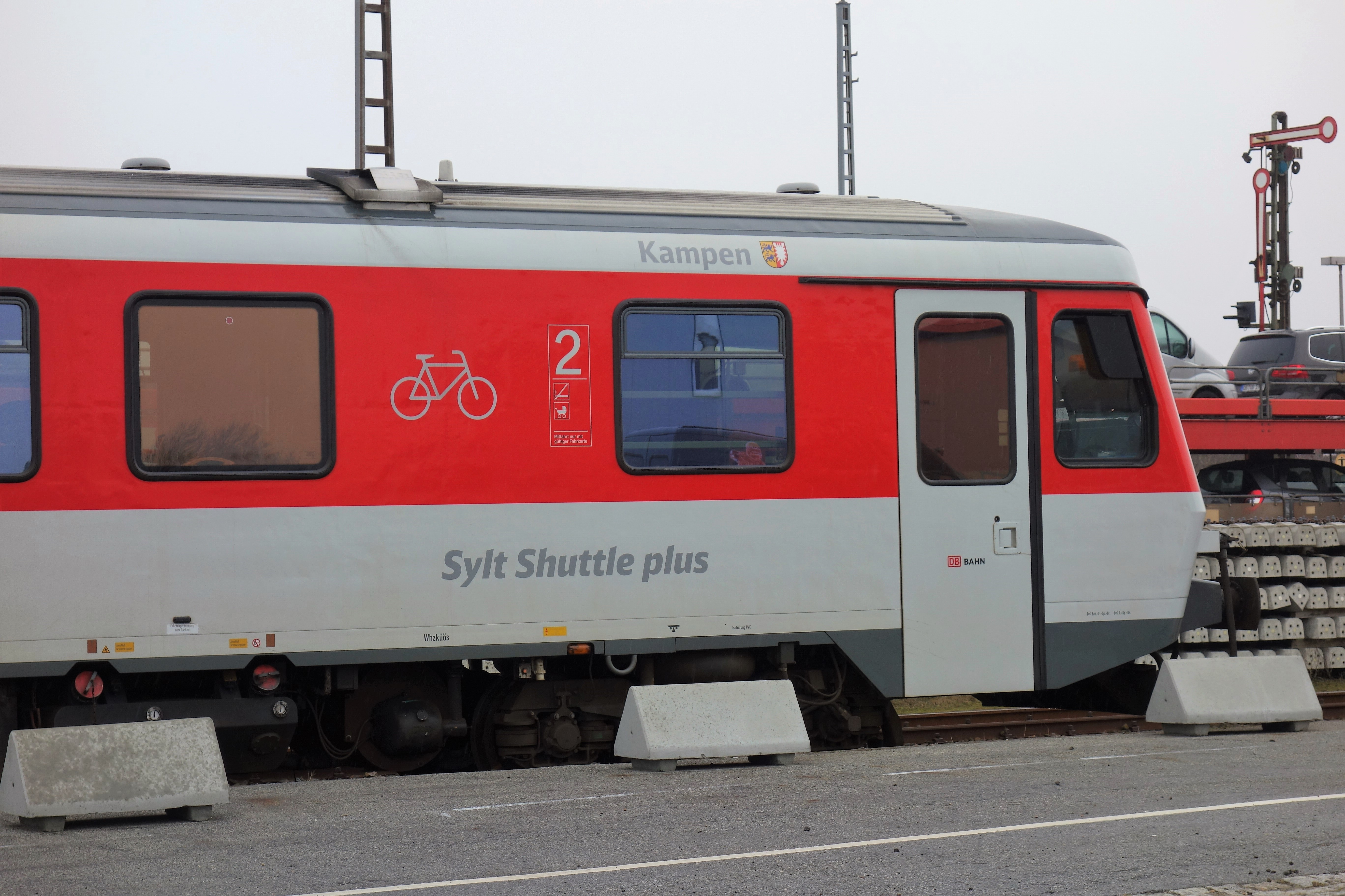 Diesel multiple unit of the Sylt Shuttle plus in Westerland station